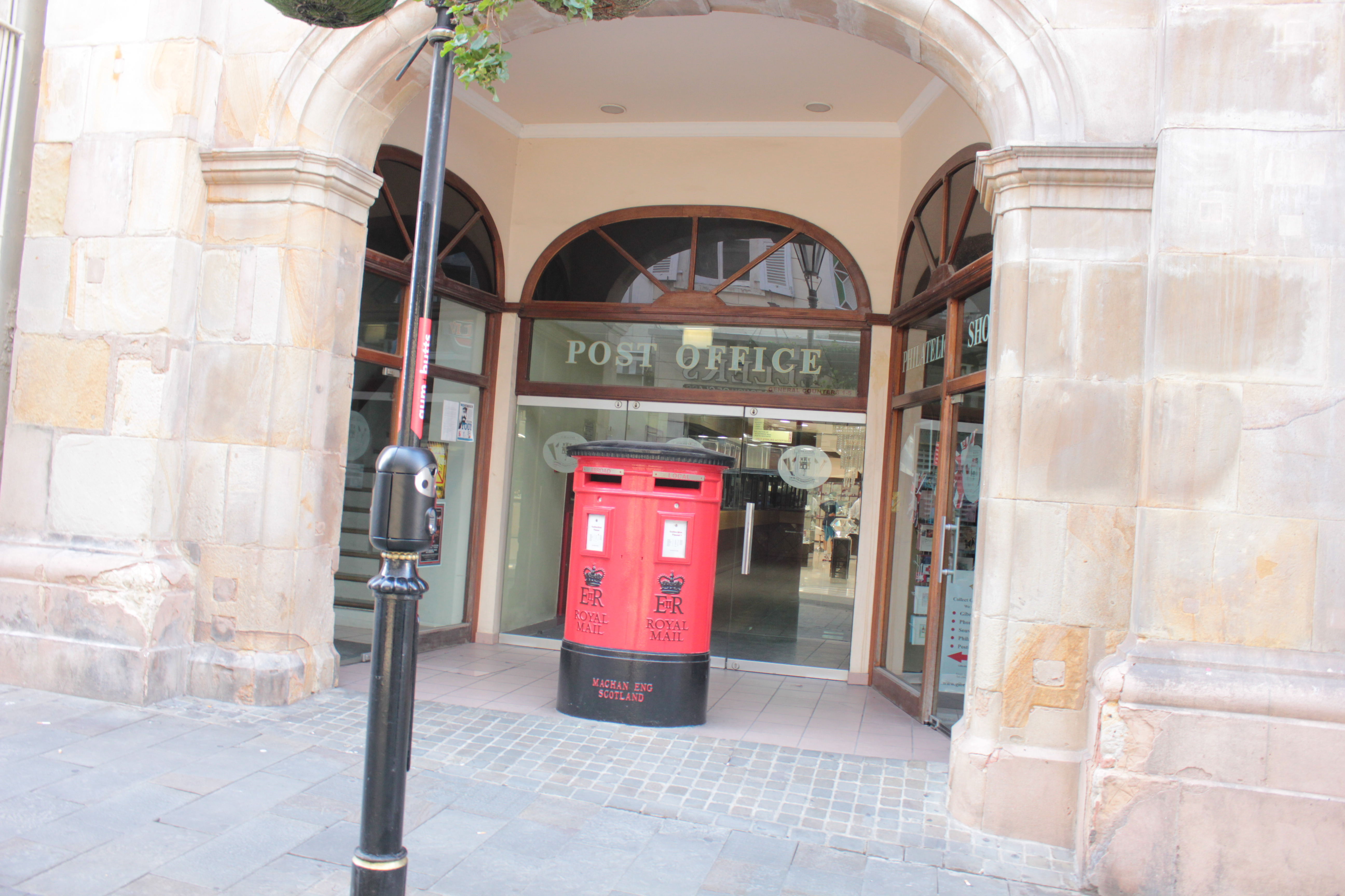 Post Office, Main Street, Gibraltar